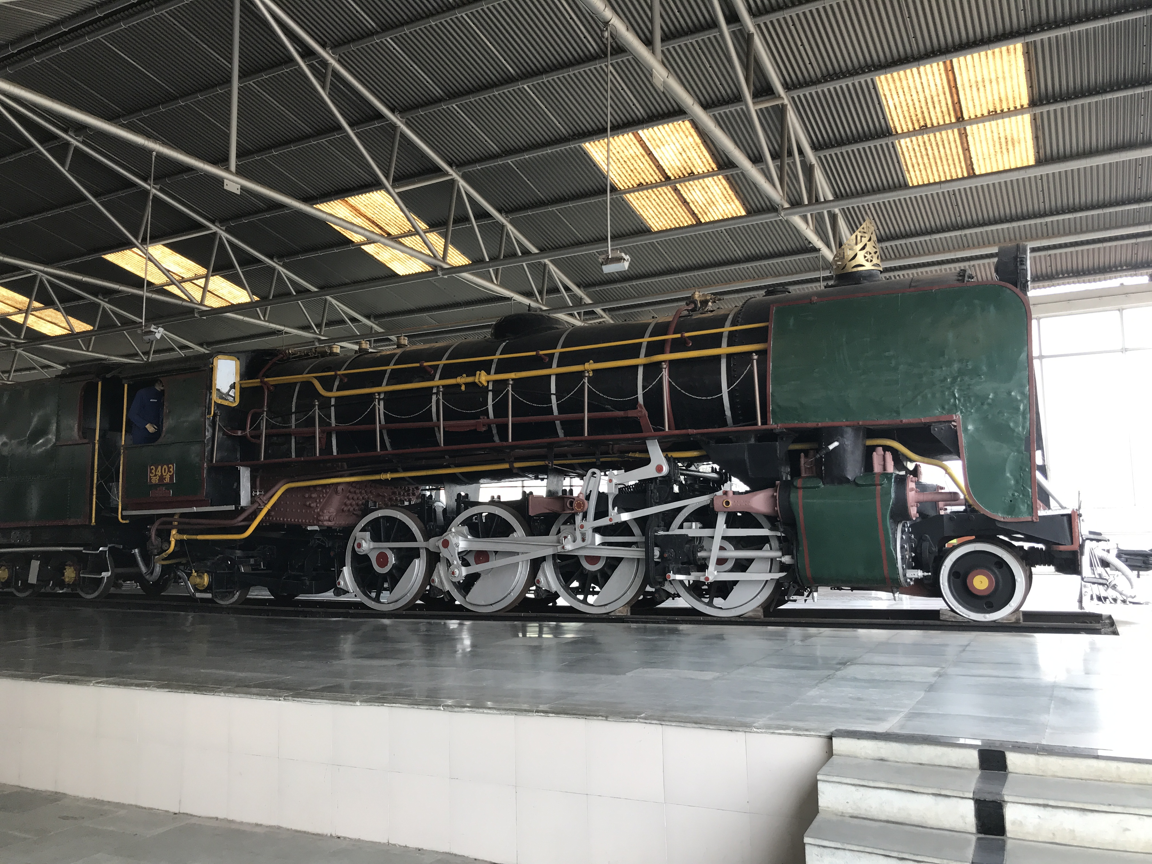 Indian Railways Museum in Howrah, West Vengal, India, Maintained by Eastern Railway.